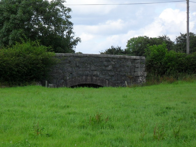 At the Corbet Station This is where the old G.N.R.(I) Knockmore Jct - Castlewellan line cut under the Drone Hill Road just south of the Corbet. It was here that the Corbet station stood - opened in 1882 and closed, with this section of line, in 1955. The trackbed and station have long since disappeared under this field.